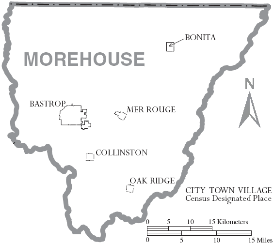 Map of Morehouse Parish, Louisiana, United States with municipal boundaries